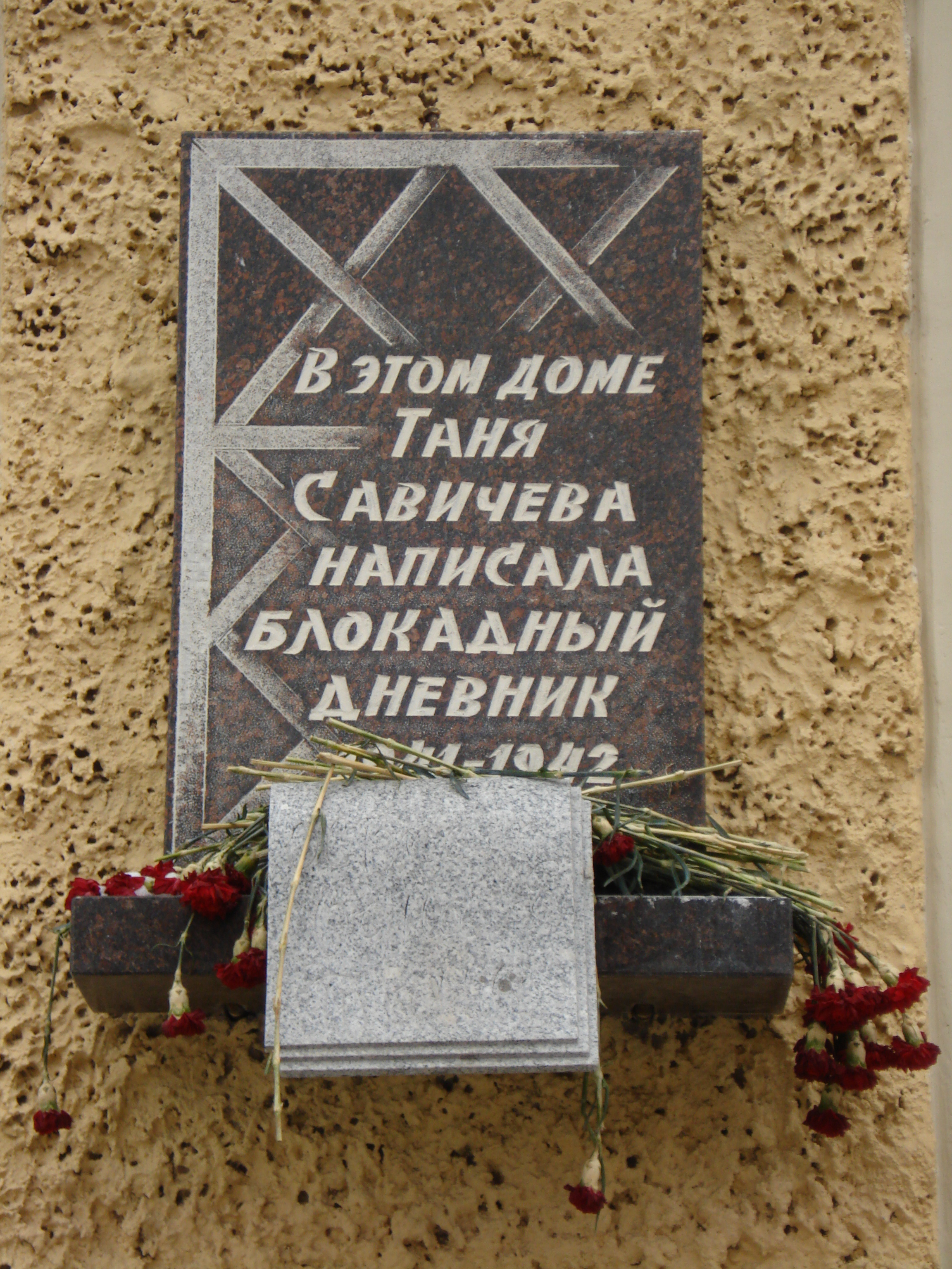 The memorial plaque on the house, when lived Tanya Savicheva, Saint Petersburg, Russia.